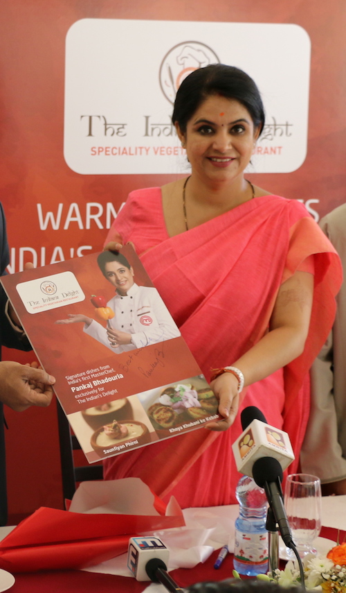 Pankaj Bhadouria unveiling her signature recipes in Muscat